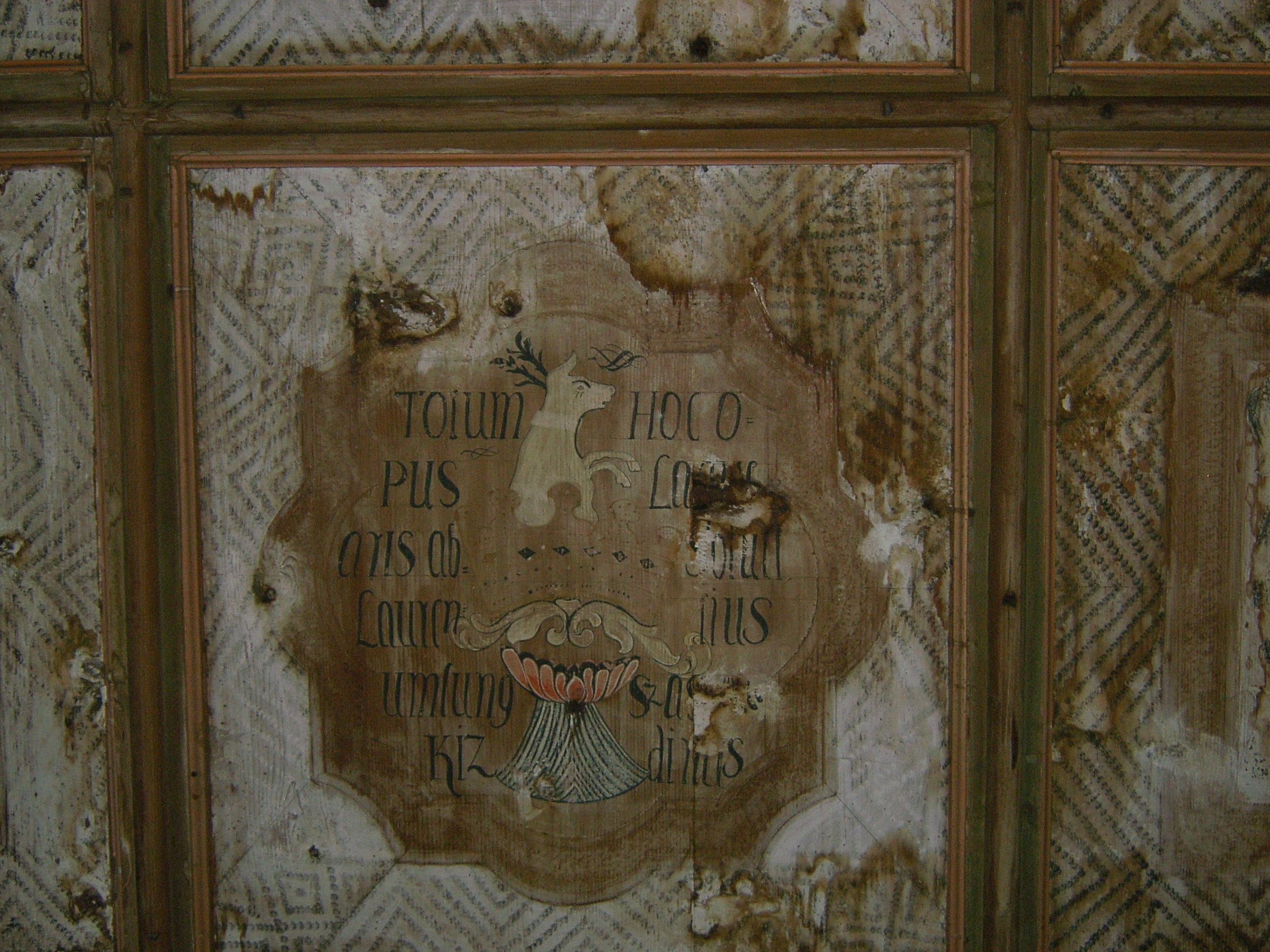 Hand painted slab in the reformed church, contain the name "Umling Lőrincz"; Căpuşu Mic, Transylvania